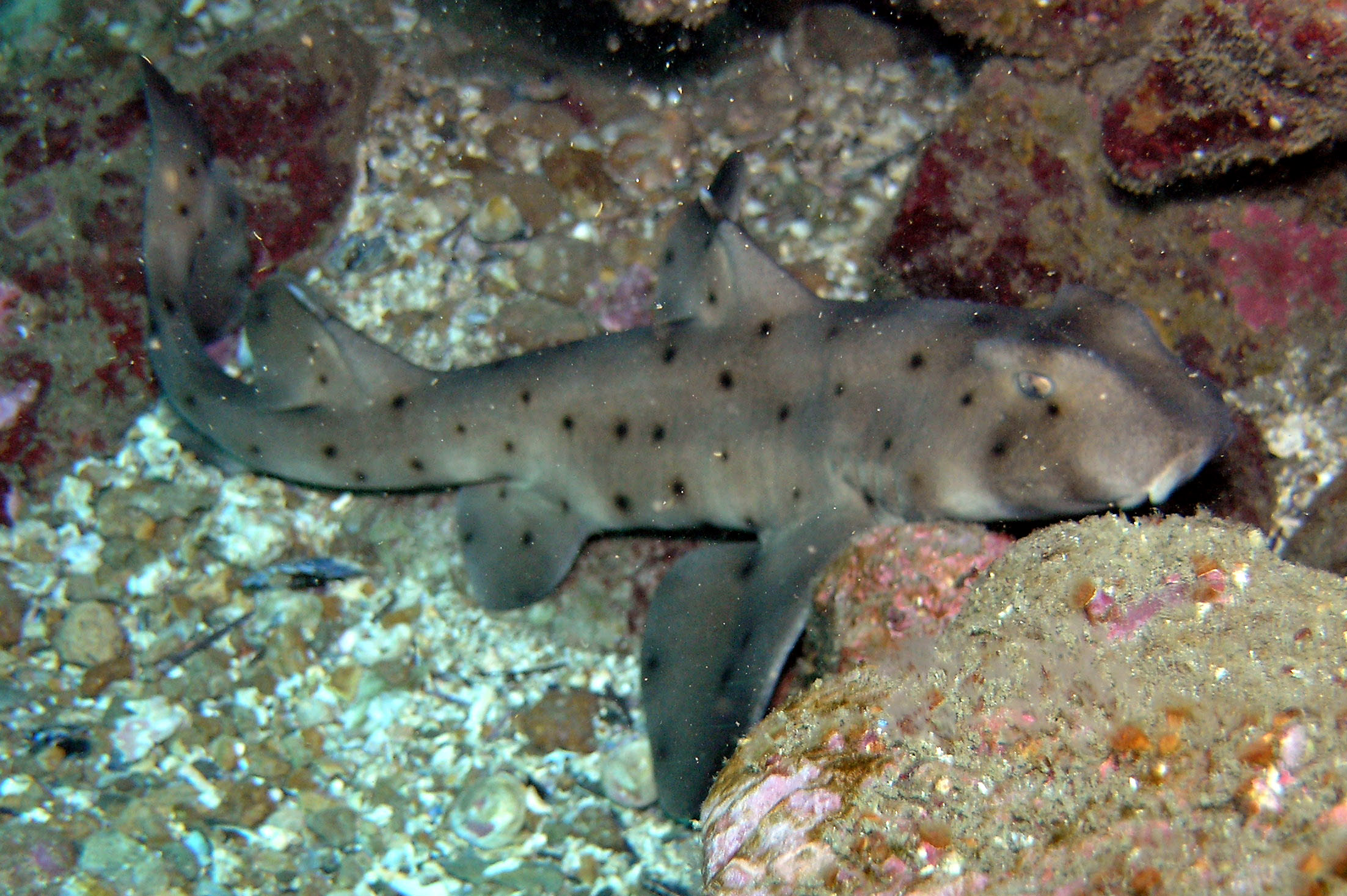 Horn shark (Heterodontus francisci)